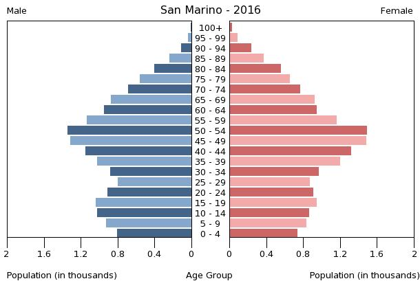 The population pyramid of San Marino illustrates the age and sex structure of population and may provide insights about political and social stability, as well as economic development. The population is distributed along the horizontal axis, with males shown on the left and females on the right. The male and female populations are broken down into 5-year age groups represented as horizontal bars along the vertical axis, with the youngest age groups at the bottom and the oldest at the top. The shape of the population pyramid gradually evolves over time based on fertility, mortality, and international migration trends.